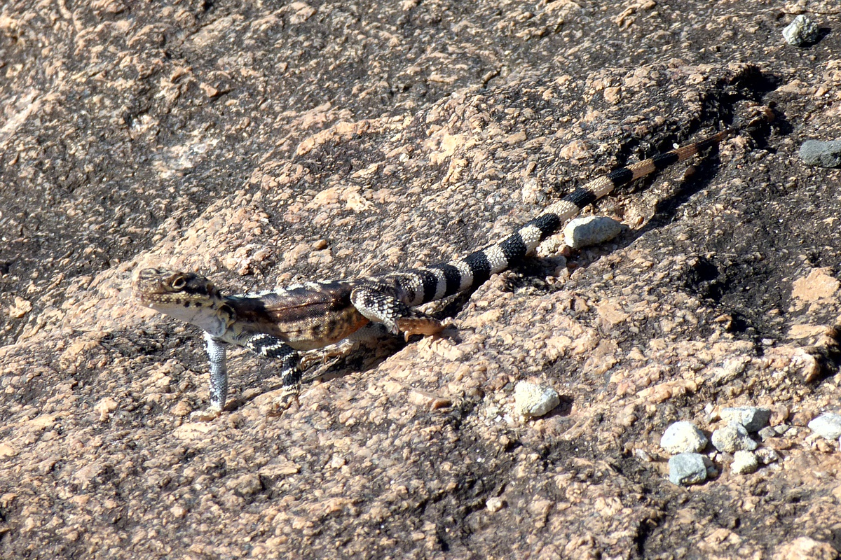 Ornate Dragon, seen on Wave Rock at Hyden, Western Australia